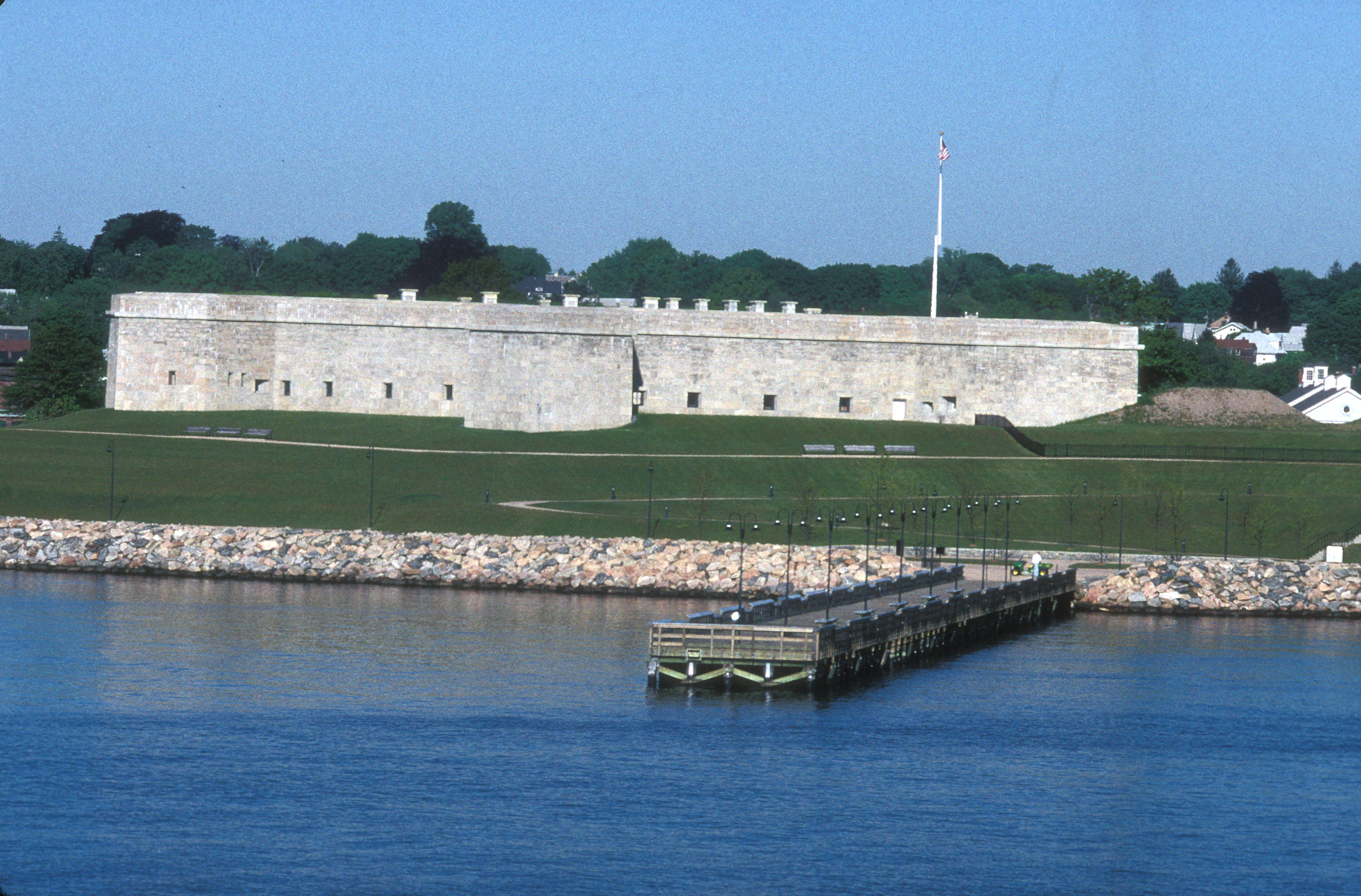 IN 1775 GOVERNOR JONATHAN TRUMBULL RECOMMENDED THE BUILDING OF A FORTIFICATION AT THE PORT OF NEW LONDON TO PROTECT THE SEAT OF THE GOVERNMENT OF CONNECTICUT. BUILT ON A ROCKY POINT OF LAND NEAR THE MOUTH OF THE THAMES RIVER ON LONG ISLAND SOUND, THE FORT WAS COMPLETED IN 1777 AND NAMED FOR GOVERNOR TRUMBULL, WHO SERVED FROM 1769 TO 1784. IN 1781 DURING THE AMERICAN REVOLUTIONARY WAR, THE FORT WAS ATTACKED AND CAPTURED BY BRITISH FORCES UNDER THE COMMAND OF BENEDICT ARNOLD